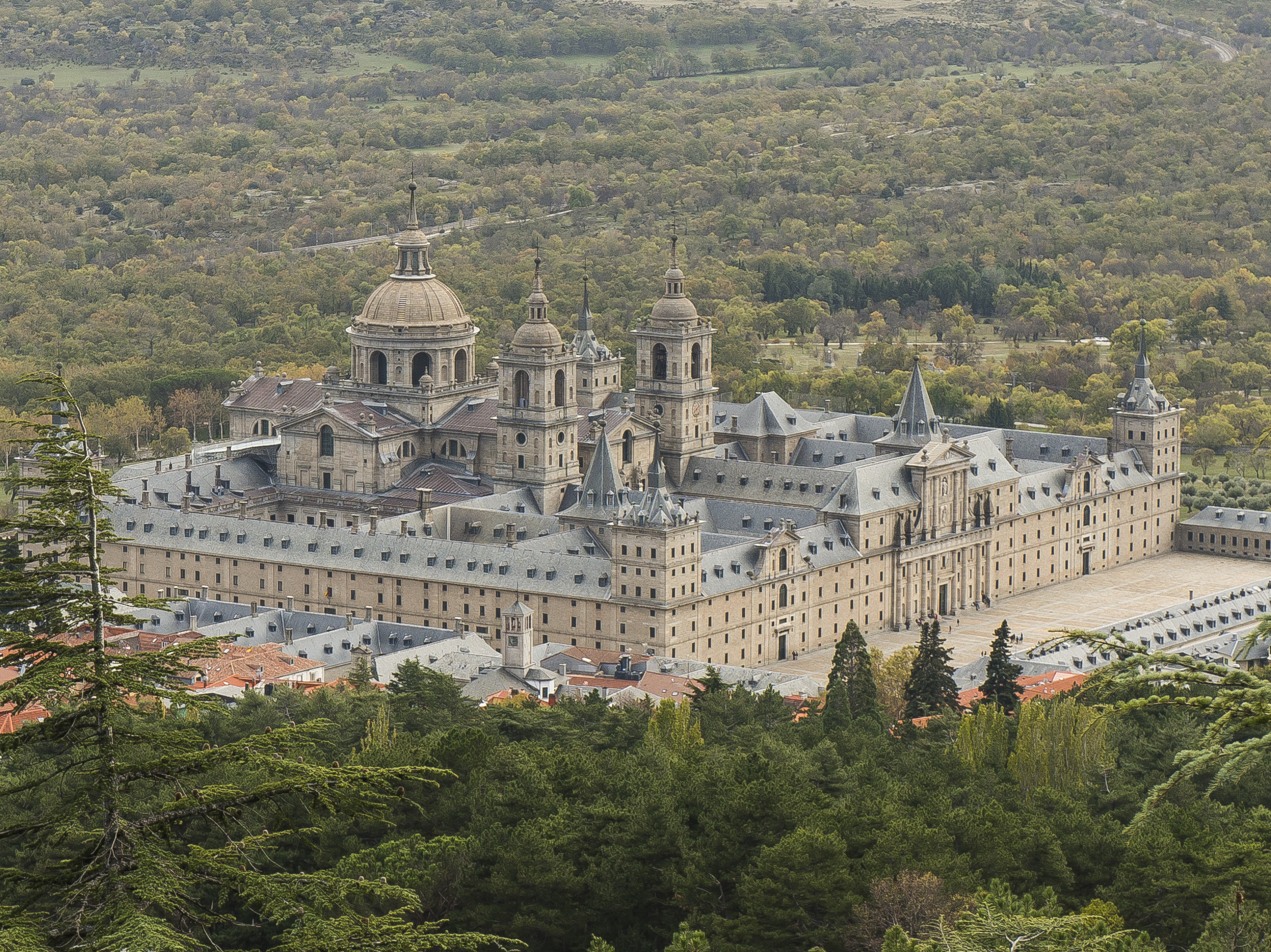 Monastery of San Lorenzo de El Escorial